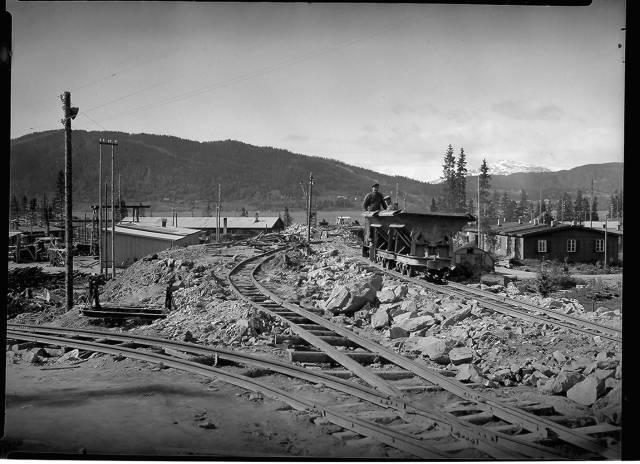 From the mines of Norsk Jernverk, Mo i Rana, Nordland, Norway